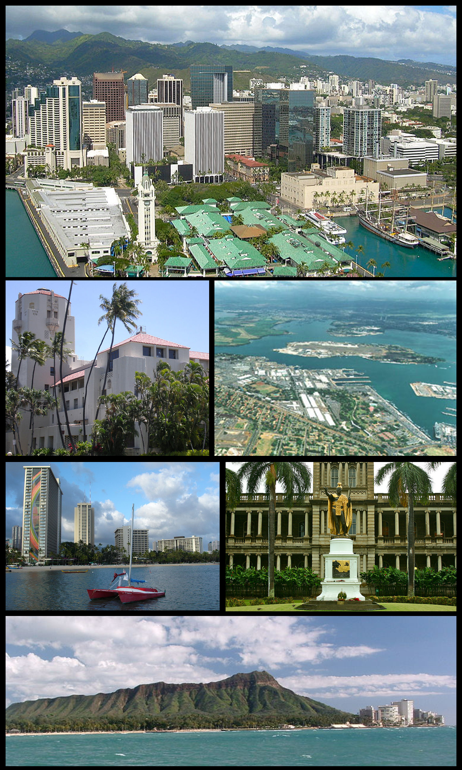 A montage of Honolulu images.